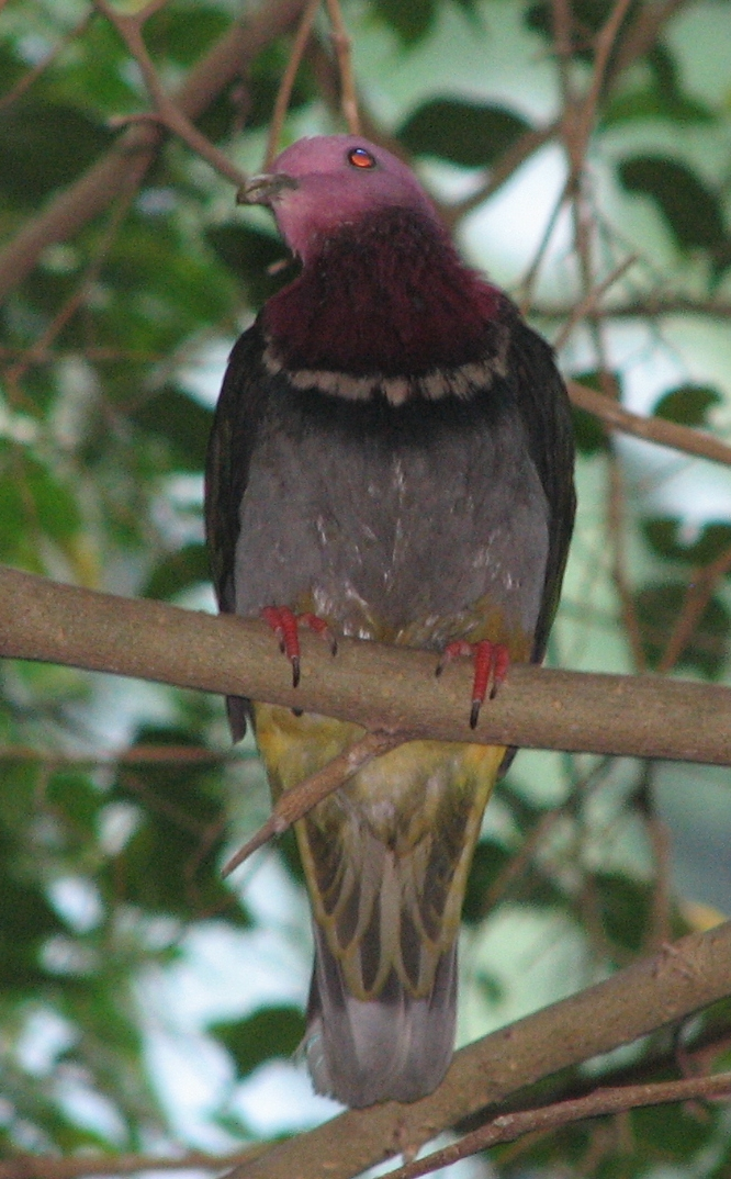 Pink-headed fruit dove (Ptilinopus porphyreus)